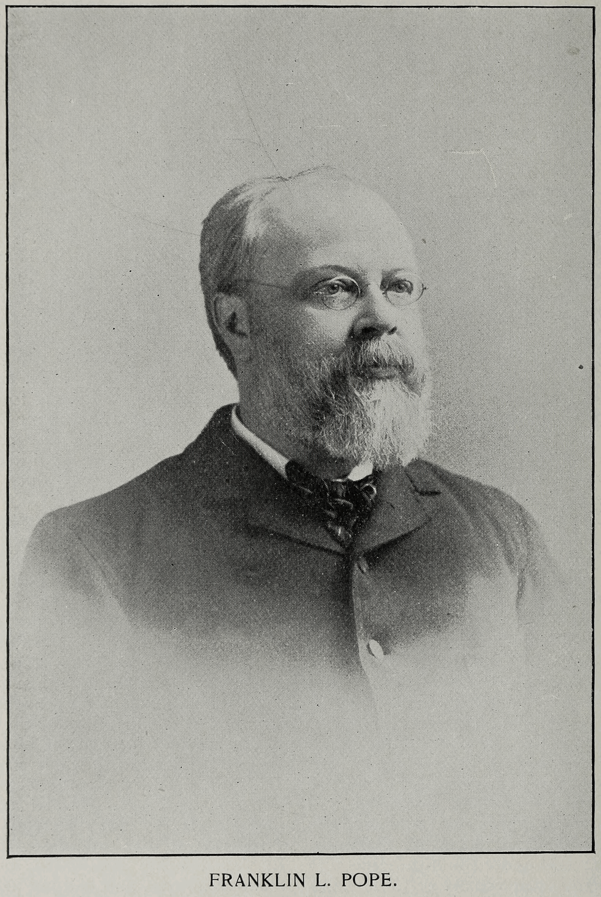 Cassier's Magazine of August 1892 had an article on page 240-247, describing the American Institute of Electrical Engineers and its most prominent members. It was accompanied by a number of illustrations, including this, on page 242, portraying Franklin Leonard Pope, president of the Institute 1886-1887.